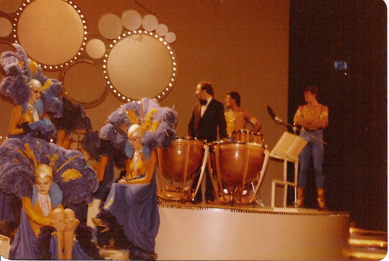 SAB Television-Lovelace Watkins-Rehearsal